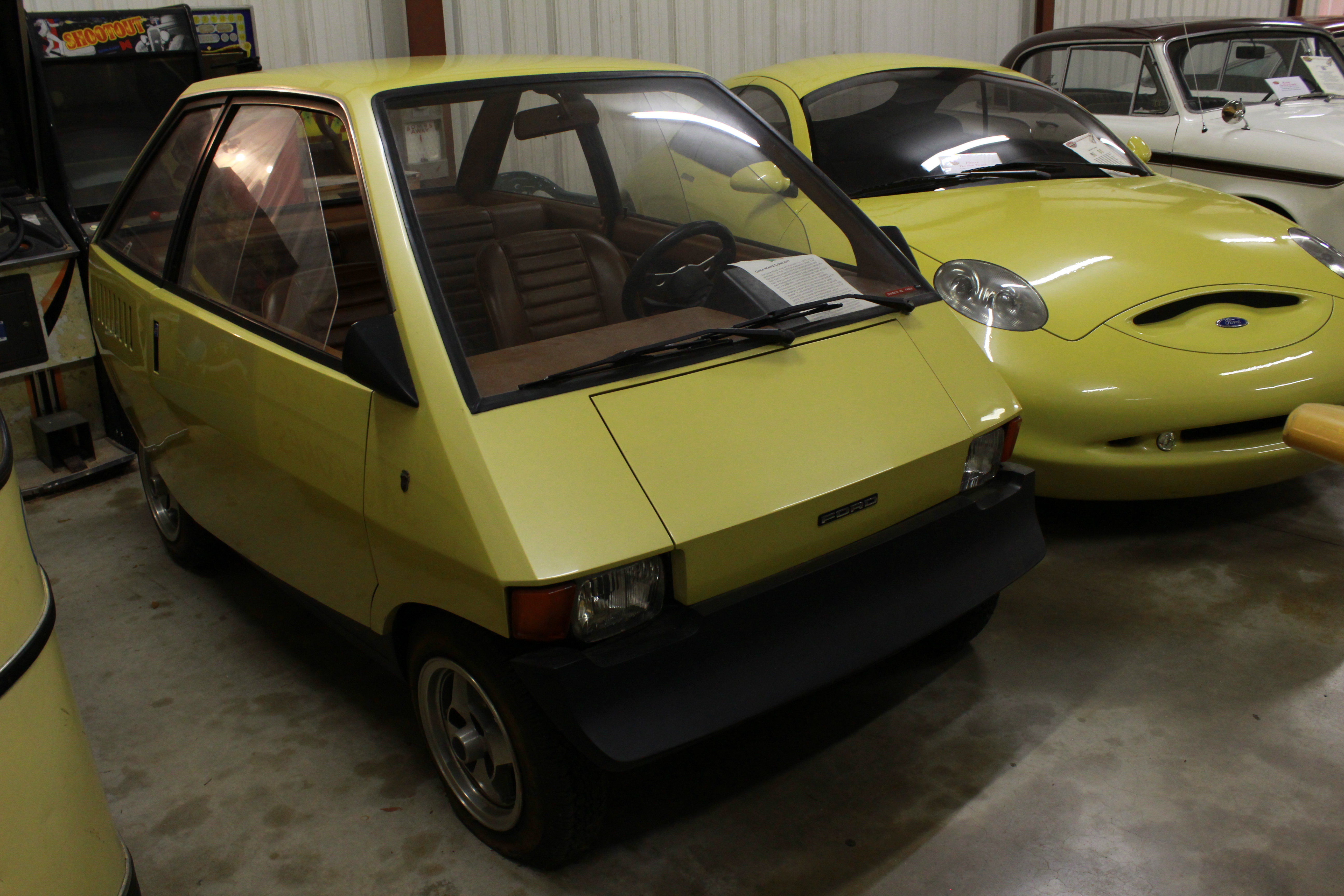 Ford Manx/Gia Urban and Ford Vivance (right) in Sarasota Classic Car Museum